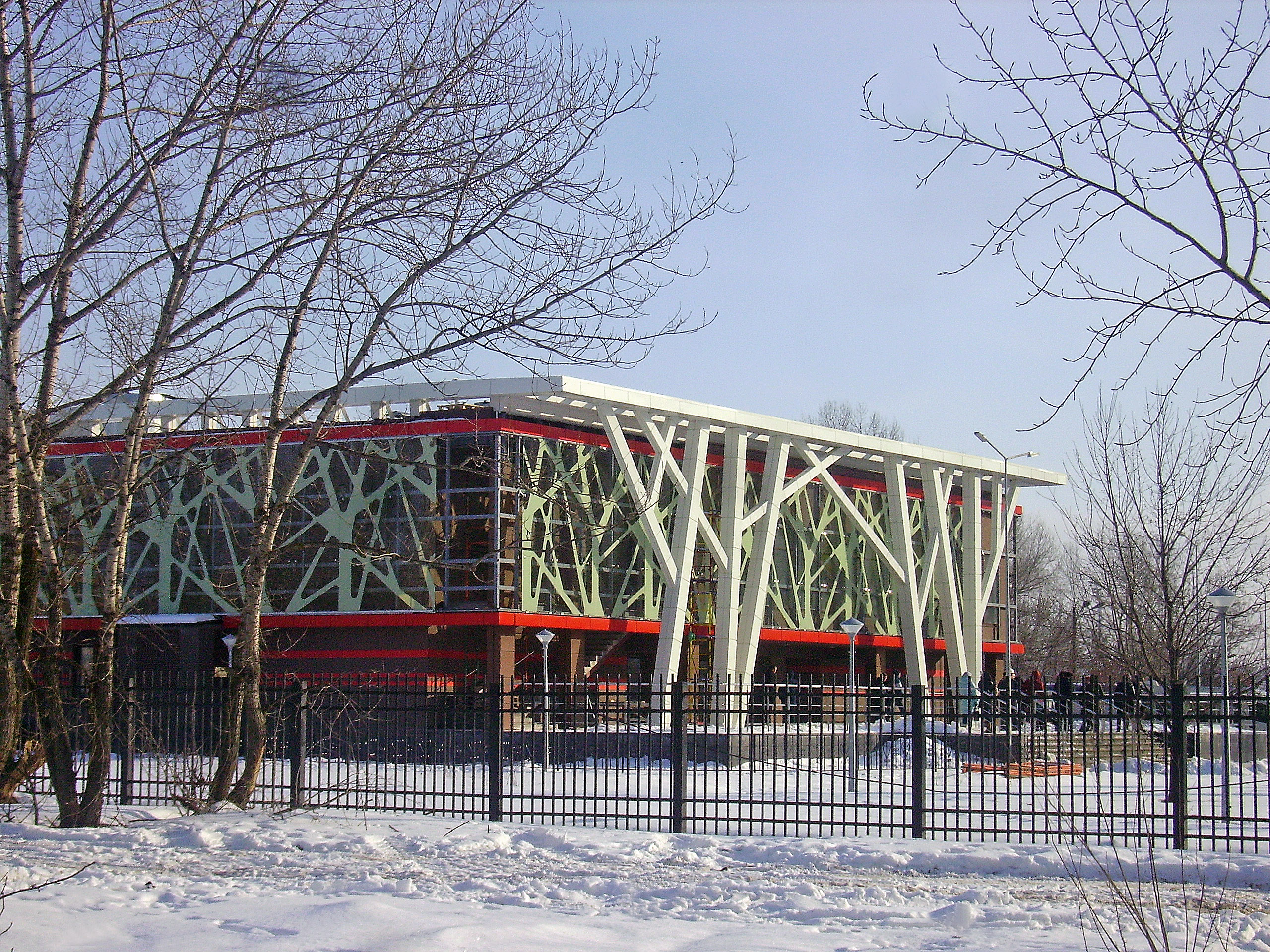 Nizhny Novgorod. Vera Children's Theatre